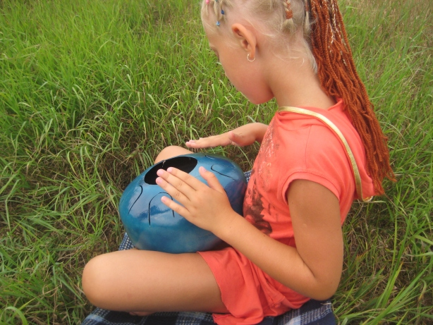 little glukofon